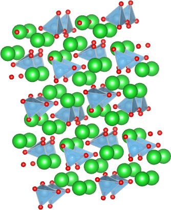 Balls-and-sticks representation of beta-Ba2TiO4 crystal